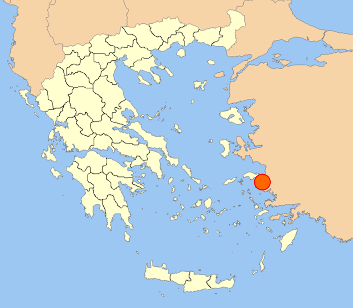 location of the Seven Sages in ancient Greece